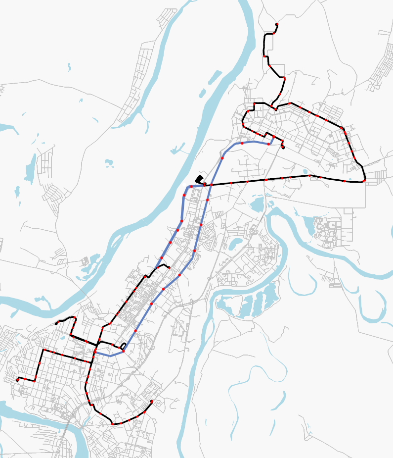 Ufa fast tram lines as part of common tram system.